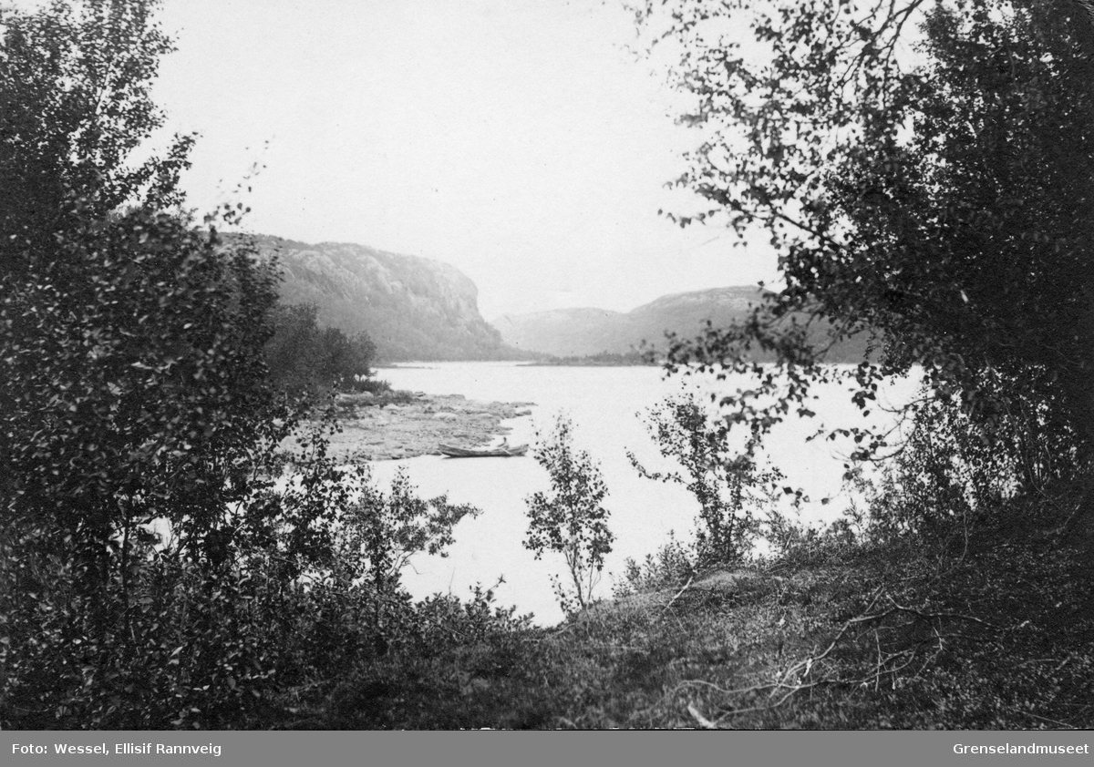 Skolt sami River boat of Pasvik type, at Pasvik River, Finnmark, Norway. Photo by Ellisif Wessel, ca 1900 Digitalmuseum ID 021016293643